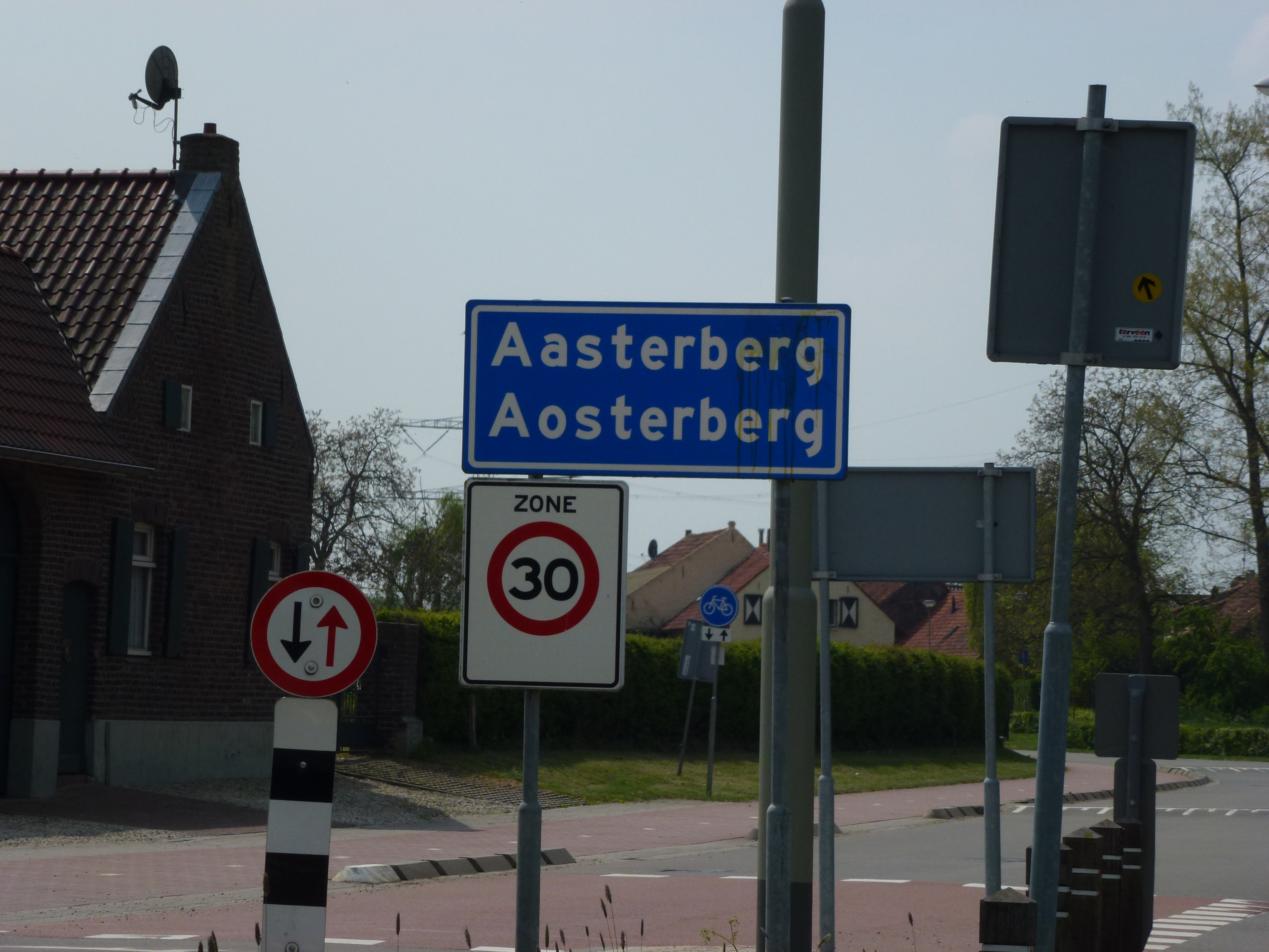 Aasterberg (Echt-Susteren) bilingual city limit sign